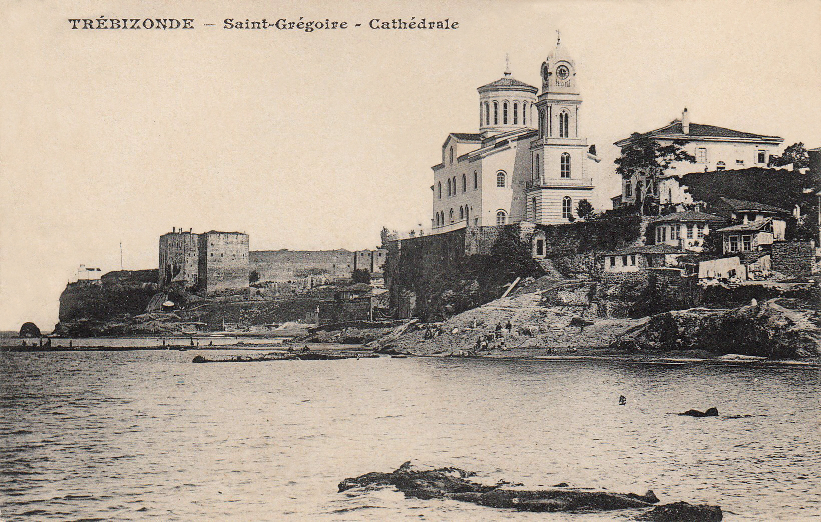 Saint Gregory Cathedral in Trebizond (Trabzon, Turkey) from the sea.